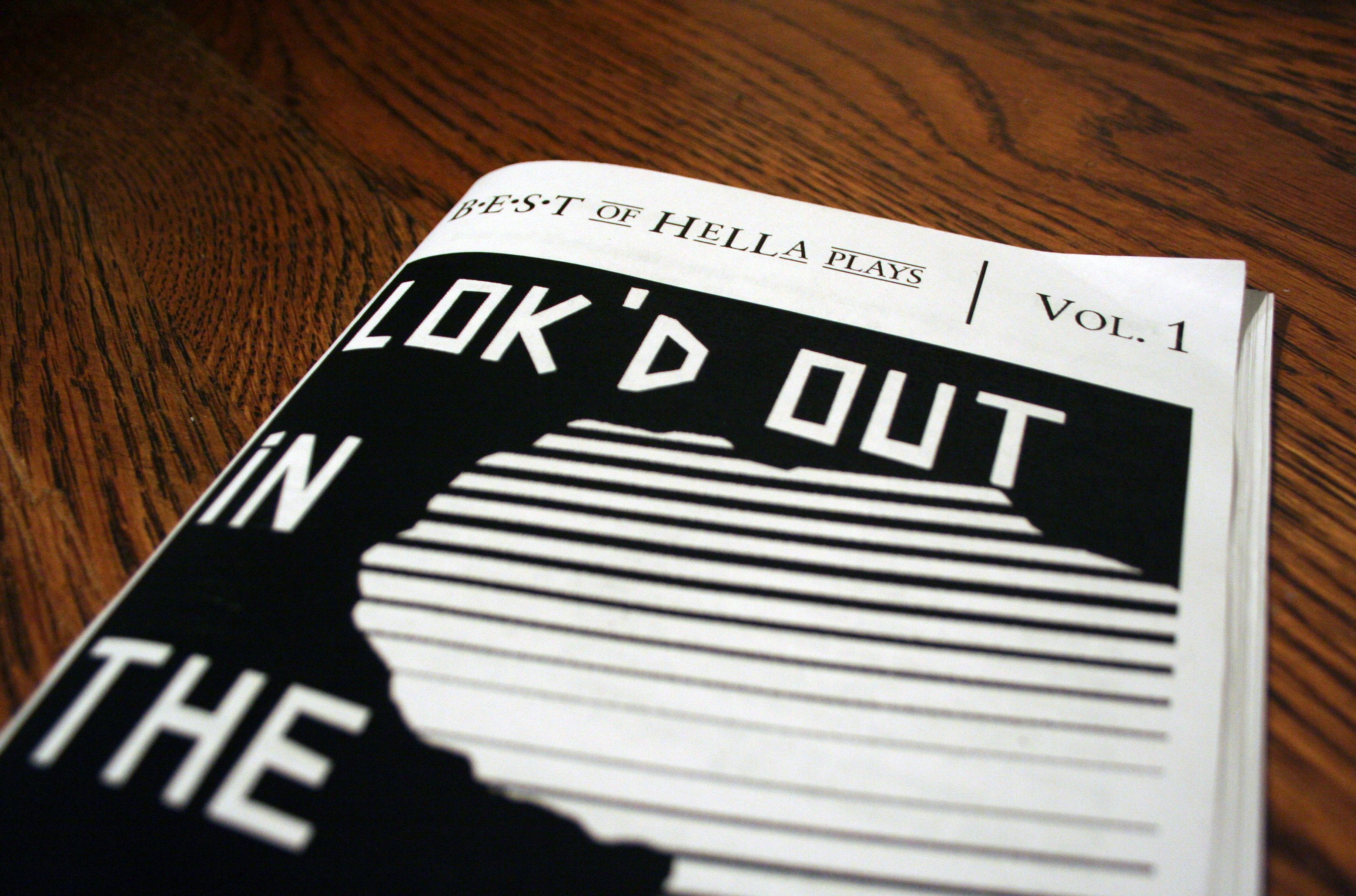 Lok'd Out in the Hour of Chaos, a zine from Tacoma, Washington, USA.